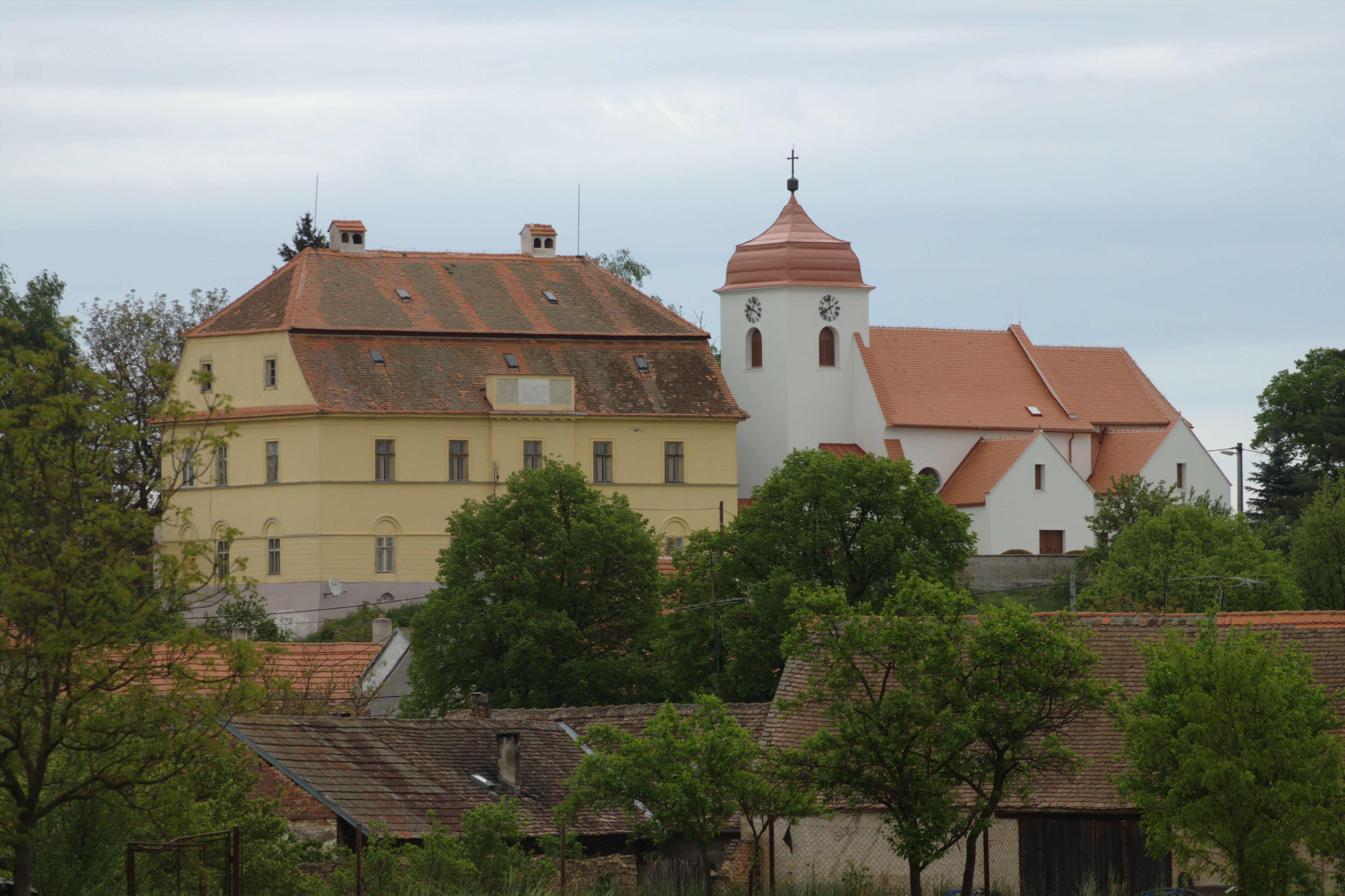 A church and a parish building in the village of Žerotice, South Moravian Region, CZ